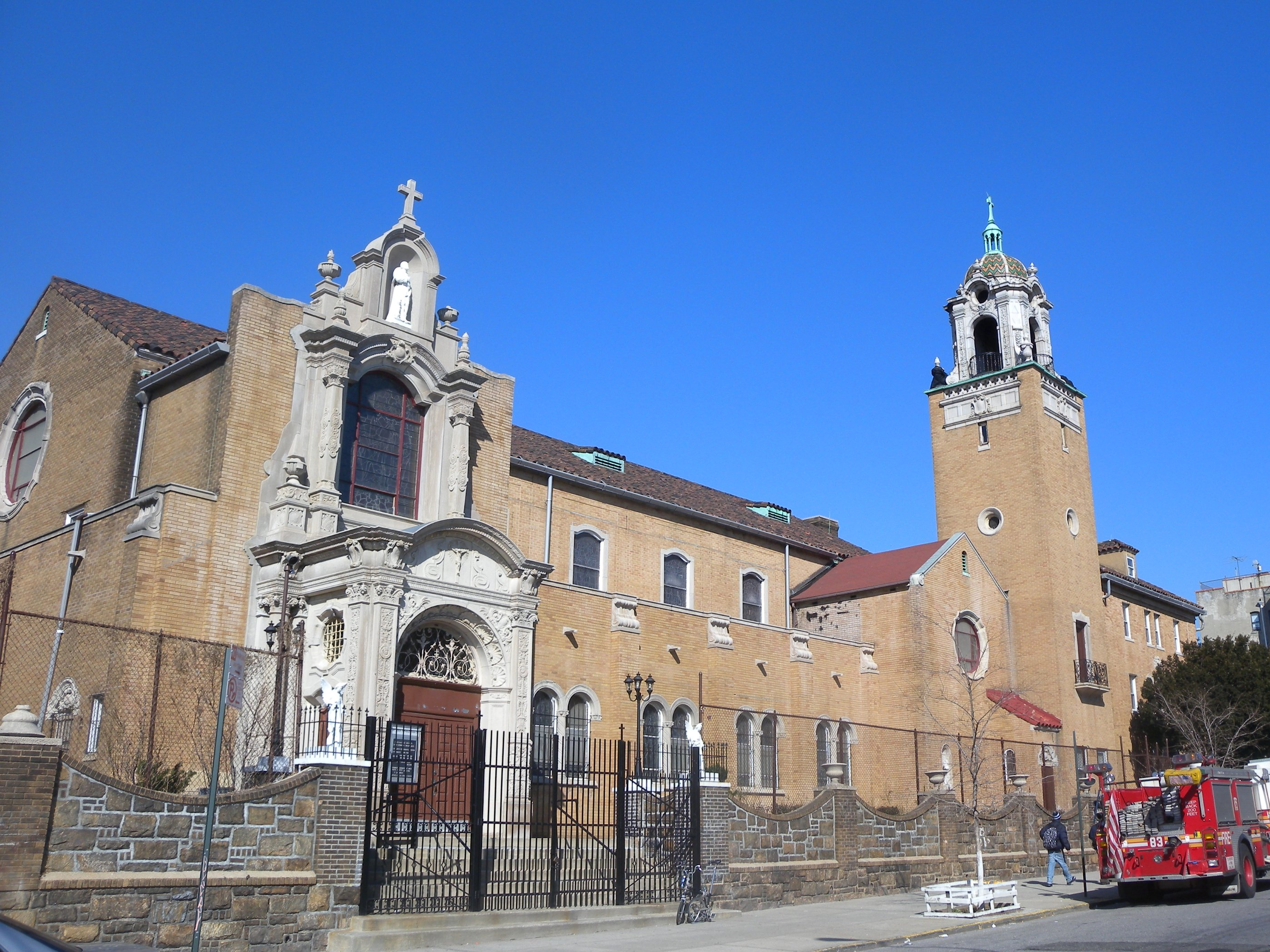 Looking north across Wales Avenue at St Roch's Church on a sunny morning.